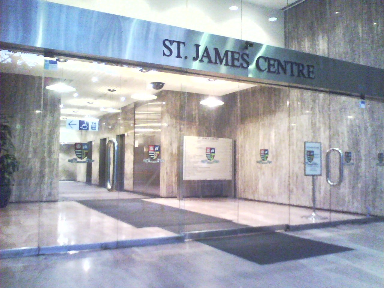 Front entrance of the Saint James Building in Elizabeth Street, Sydney. This is the building where the Royal Commission into the New South Wales Police Service was held. Since that time it has been occupied by the Police Integrity Commission. Photograph taken by myself on Sunday the 20th of May 2007. Ajayvius 11:21, 20 May 2007 (UTC)